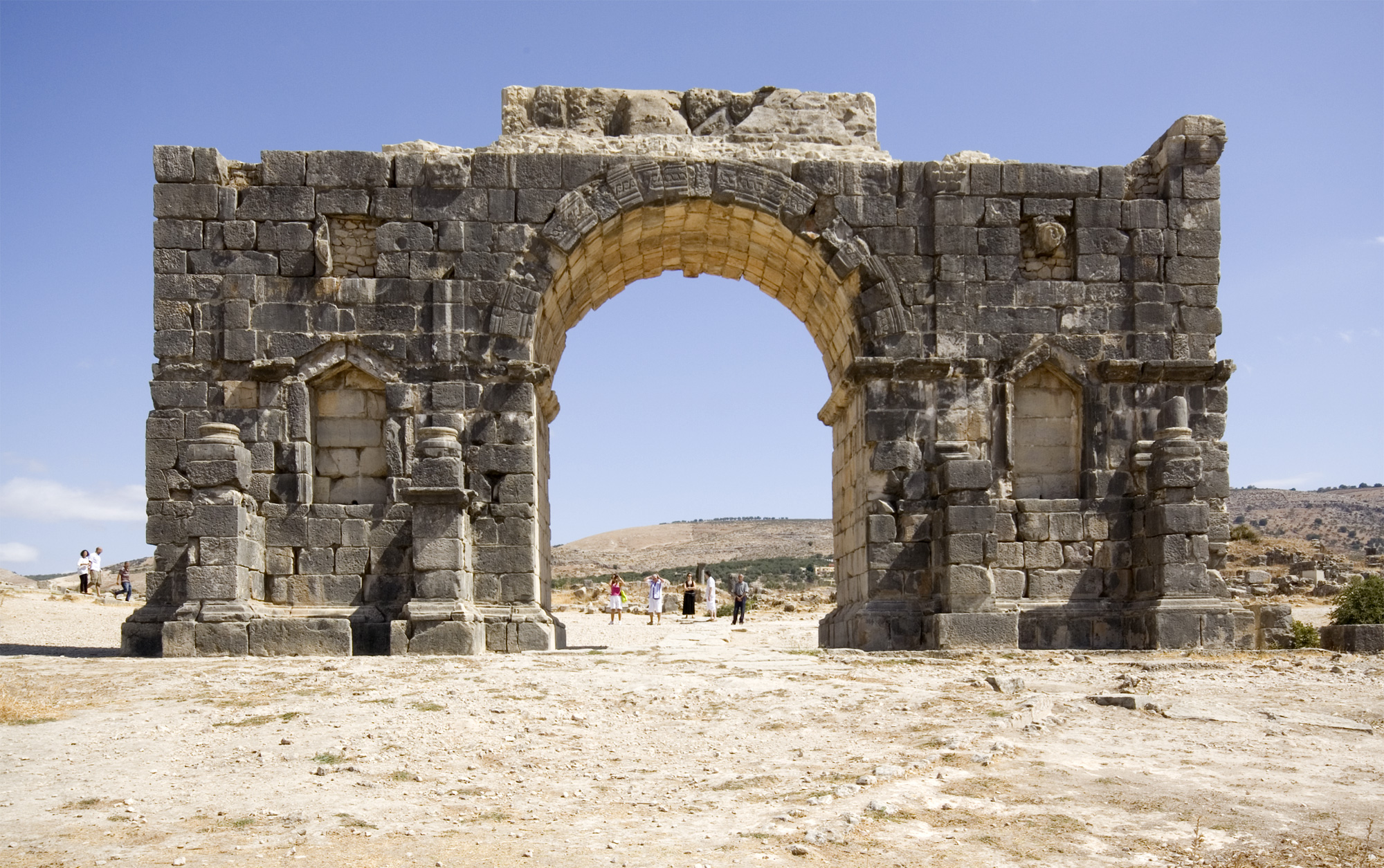 South facade of the Arch of Caracalla at Volubilis